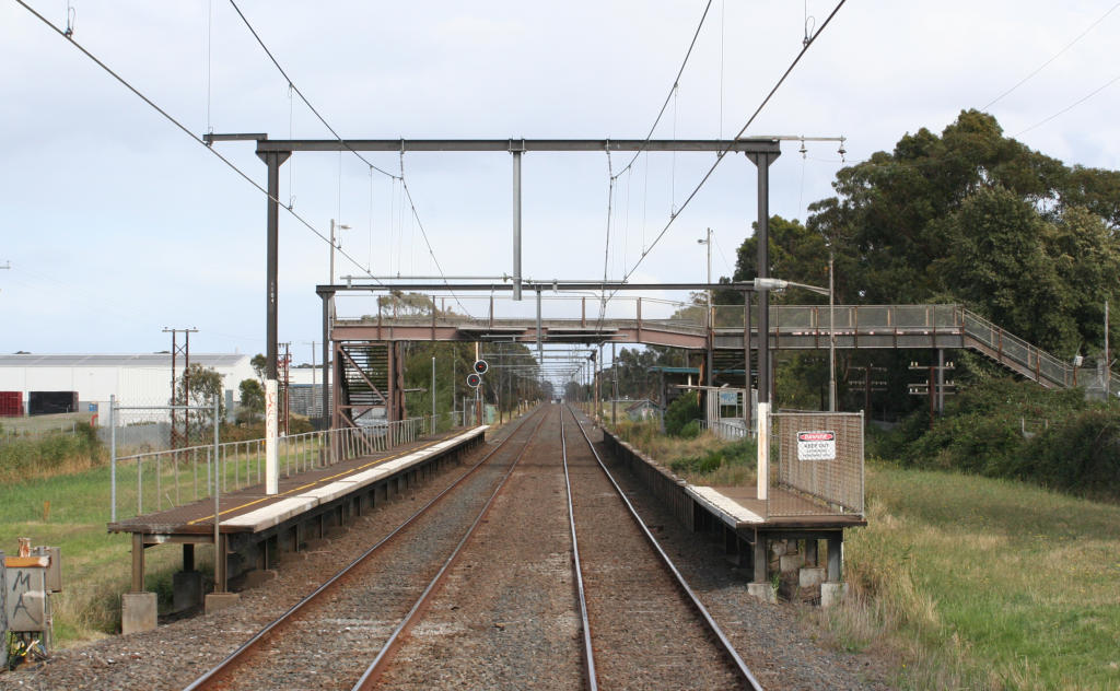 General Motors railway station - Melbourne, Australia